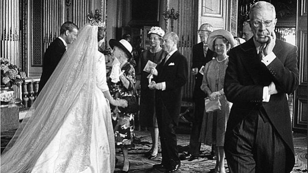 Princess Désirée, the third daughter of the late hereditary prince Gustaf Adolf and princess Sibylla, marries Baron Niclas Silfverschiöld. Here is the couple during the reception at Stockholm Palace. King Gustaf VI Adolf of Sweden in the foreground. Also in the photo are Princess Alice the Countess of Athlone, reigning Grand Duchess Charlotte of Luxemburg (a few months before she abdicated), Prince Wilhelm of Sweden and the mother of the bride, Princess Sibylla Duchess of West Bothnia